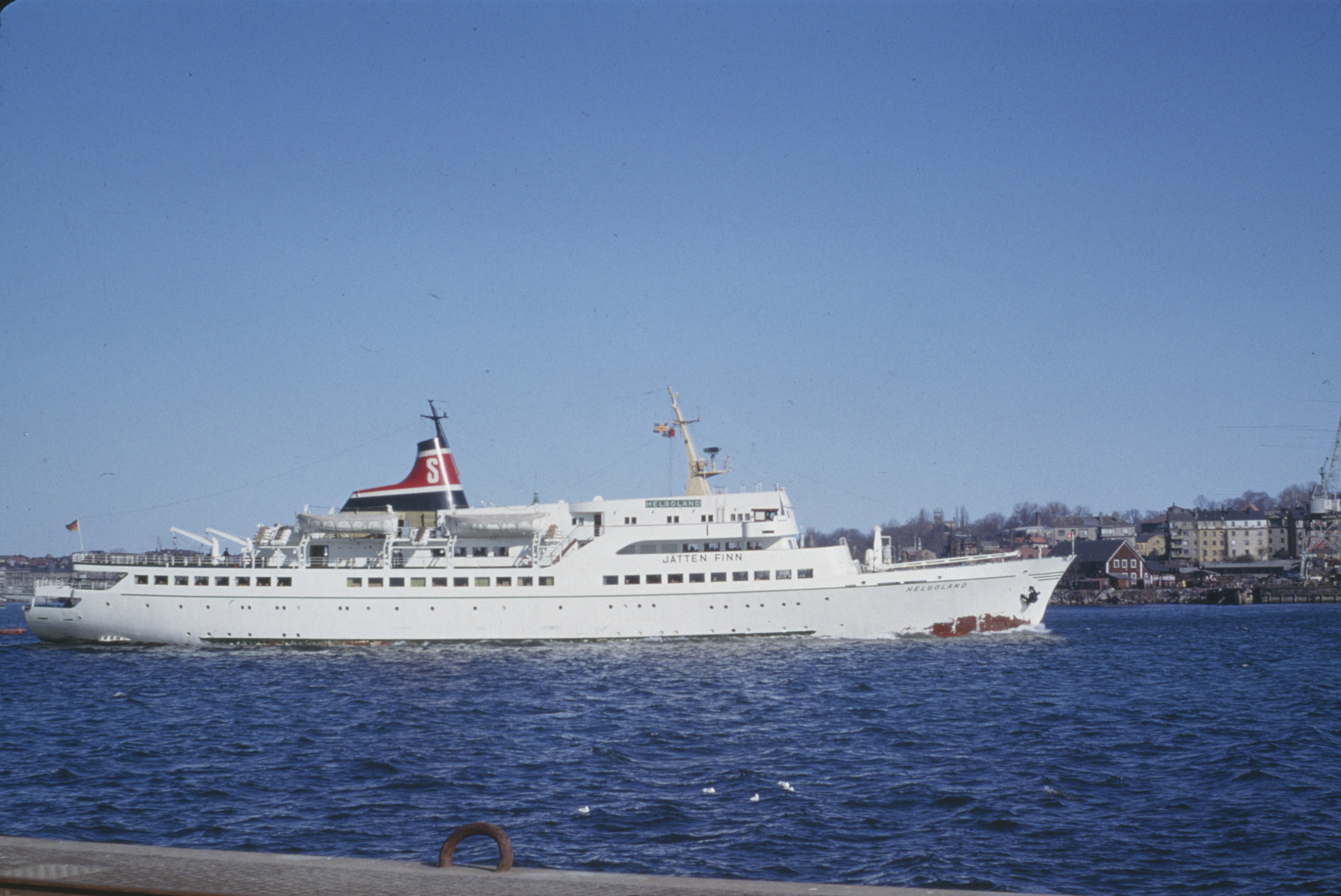 Ferry Helgoland, built in 1963